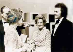 Jim Bailey, Queen Elizabeth, Prince Philip, and Beryl Reid. Taken at a Royal Command performance in 1981.